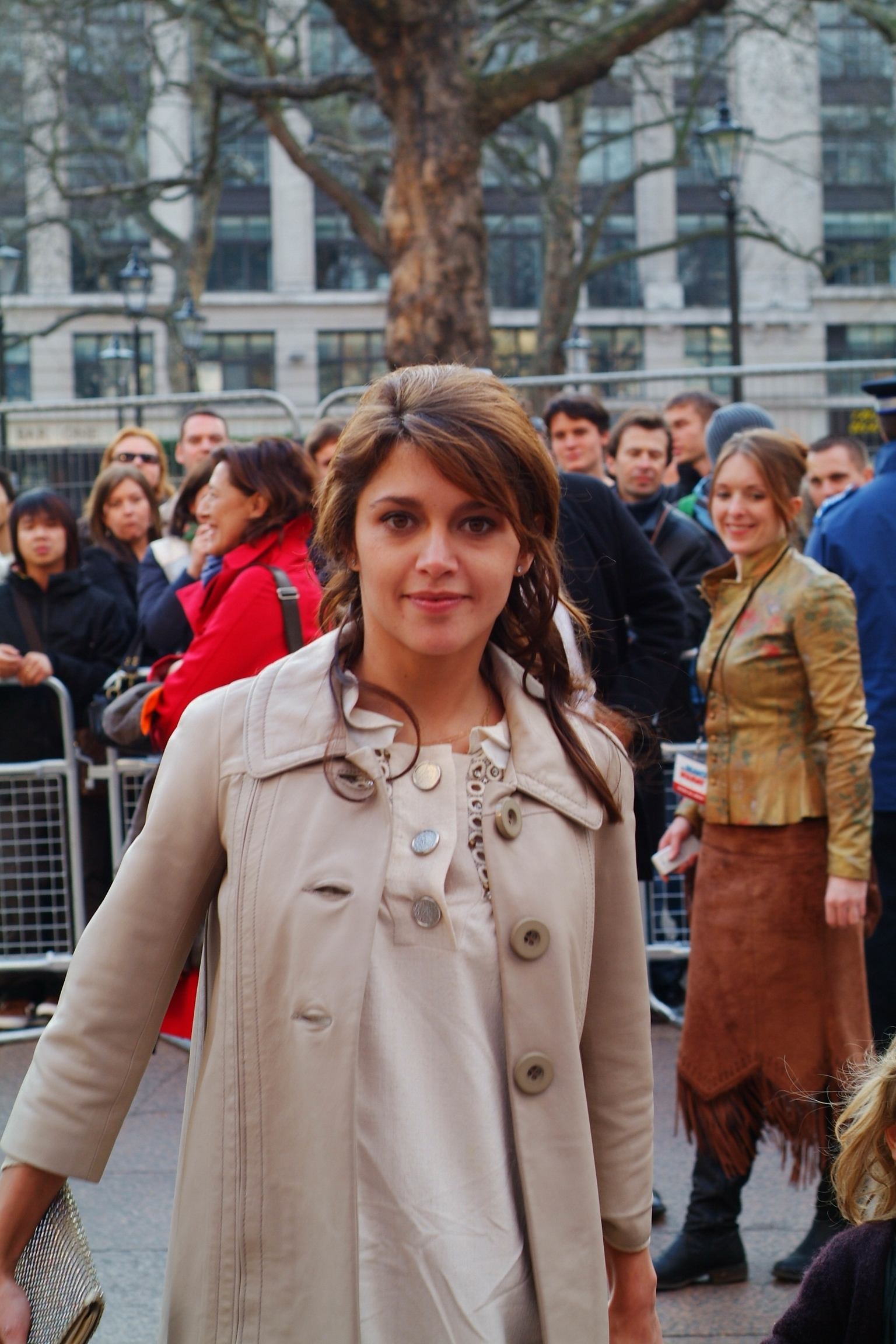 French actress Emma de Caunes at Mr Bean's Holiday Premiere 2007